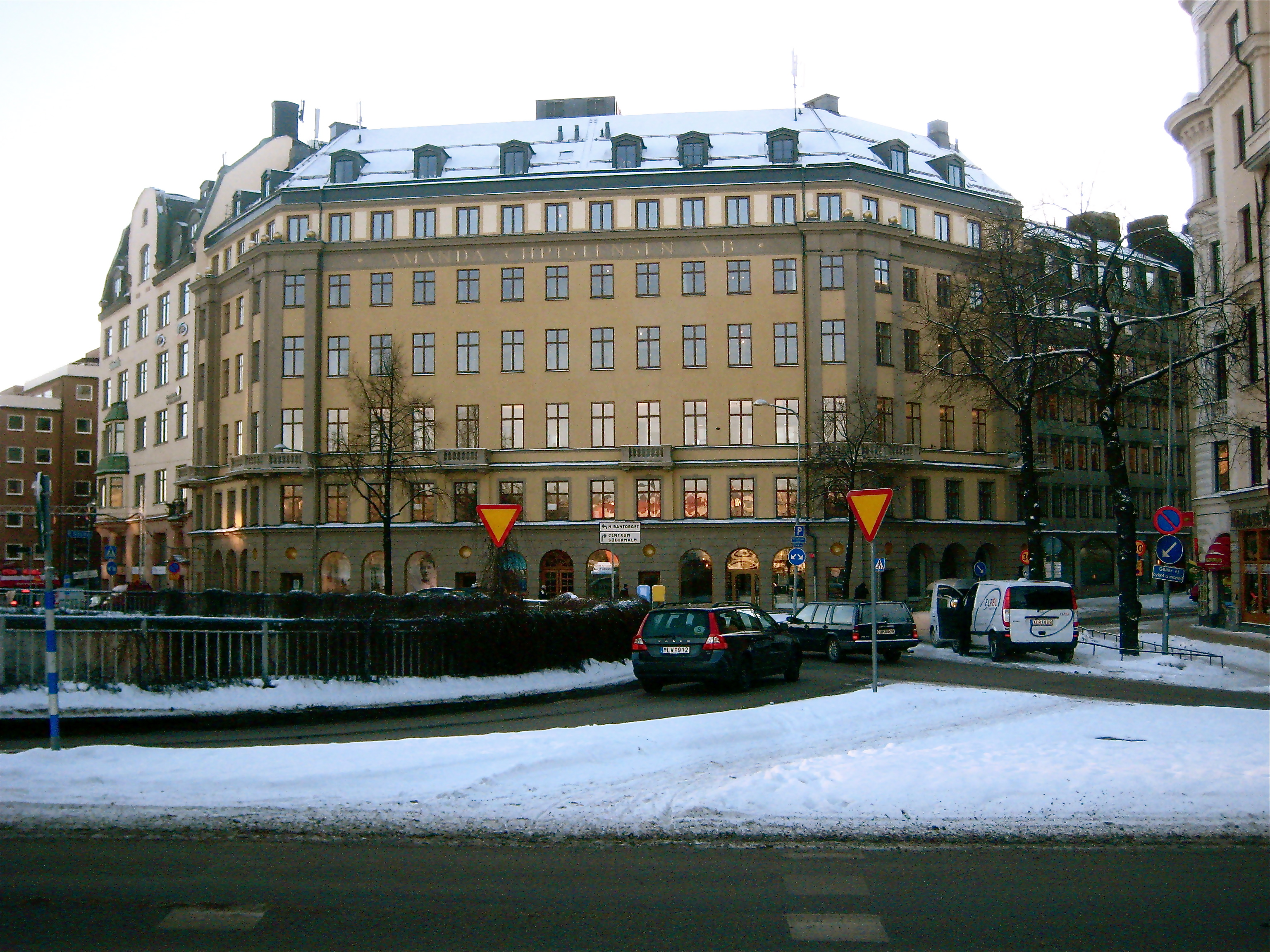 Kungsbroplan